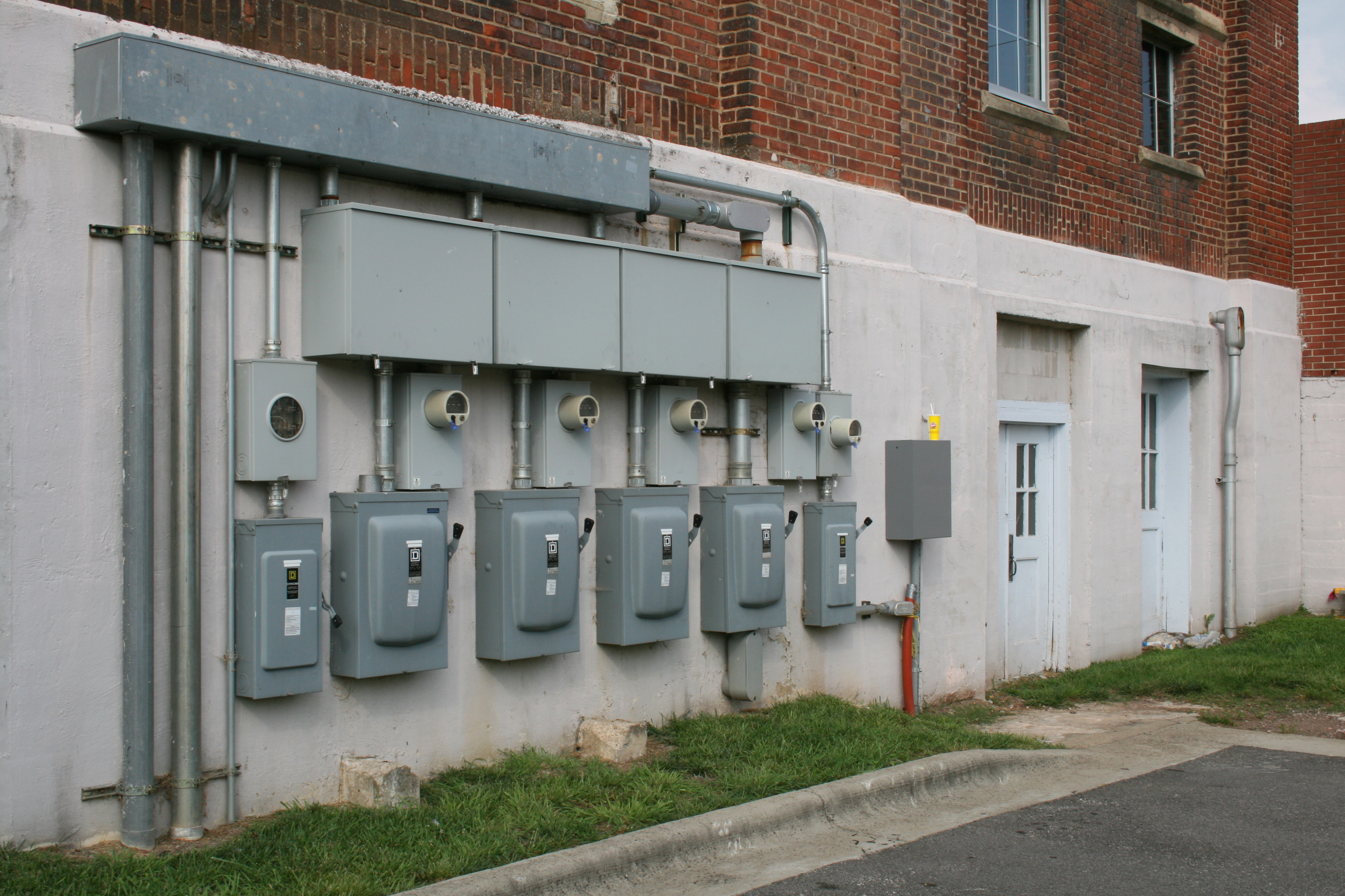 Electrical meters and switches in the rear of the Power House at West Village in Durham, North Carolina. Someone left a Wendy's fastfood restaurant disposable drink cup on top of an electrical box.